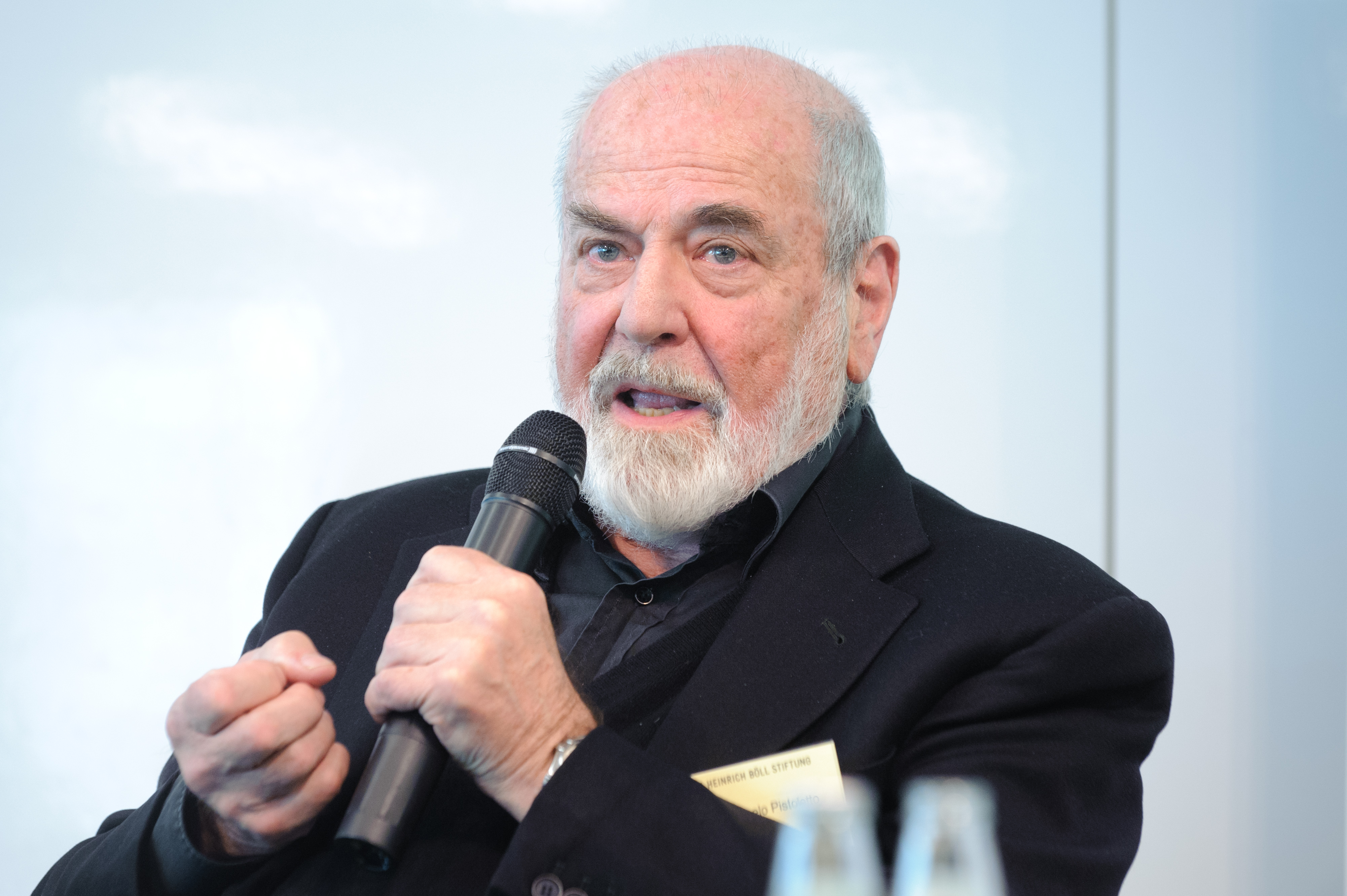 Michelangelo Pistoletto (Artist, Painter, and Art Theorist, Italy) radius of art - Konferenz Foto: Stephan Röhl